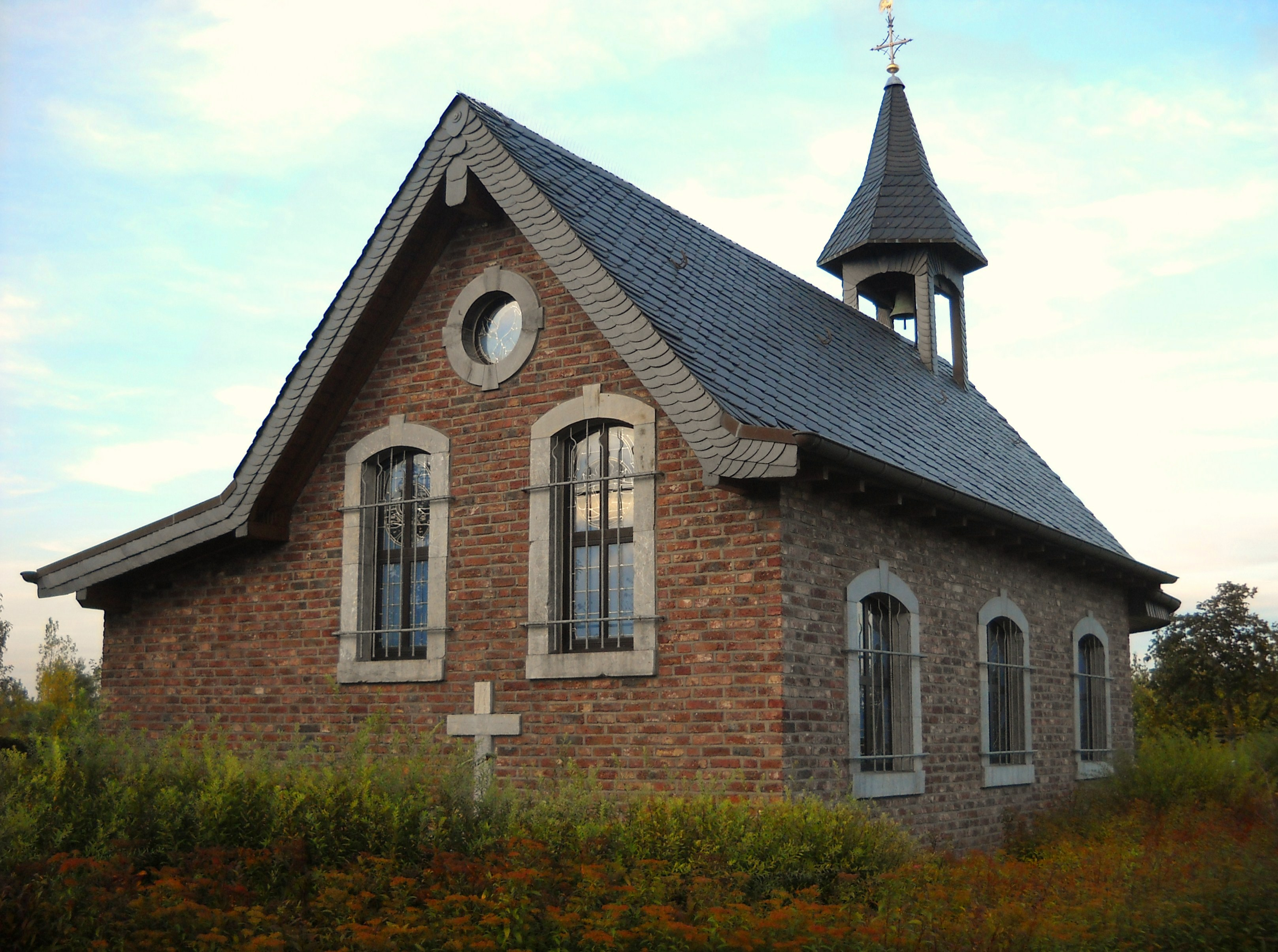 The chapel at the point where once the village Lohn was located.